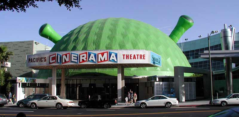 Cinerama Dome in Hollywood, California, as decorated for Shrek 2 Photographed June 12, 2004. I release this to public domain. The Cinerama Dome first opened in late 1963 and was designed by the architectural firm Welton Becket & Associates.